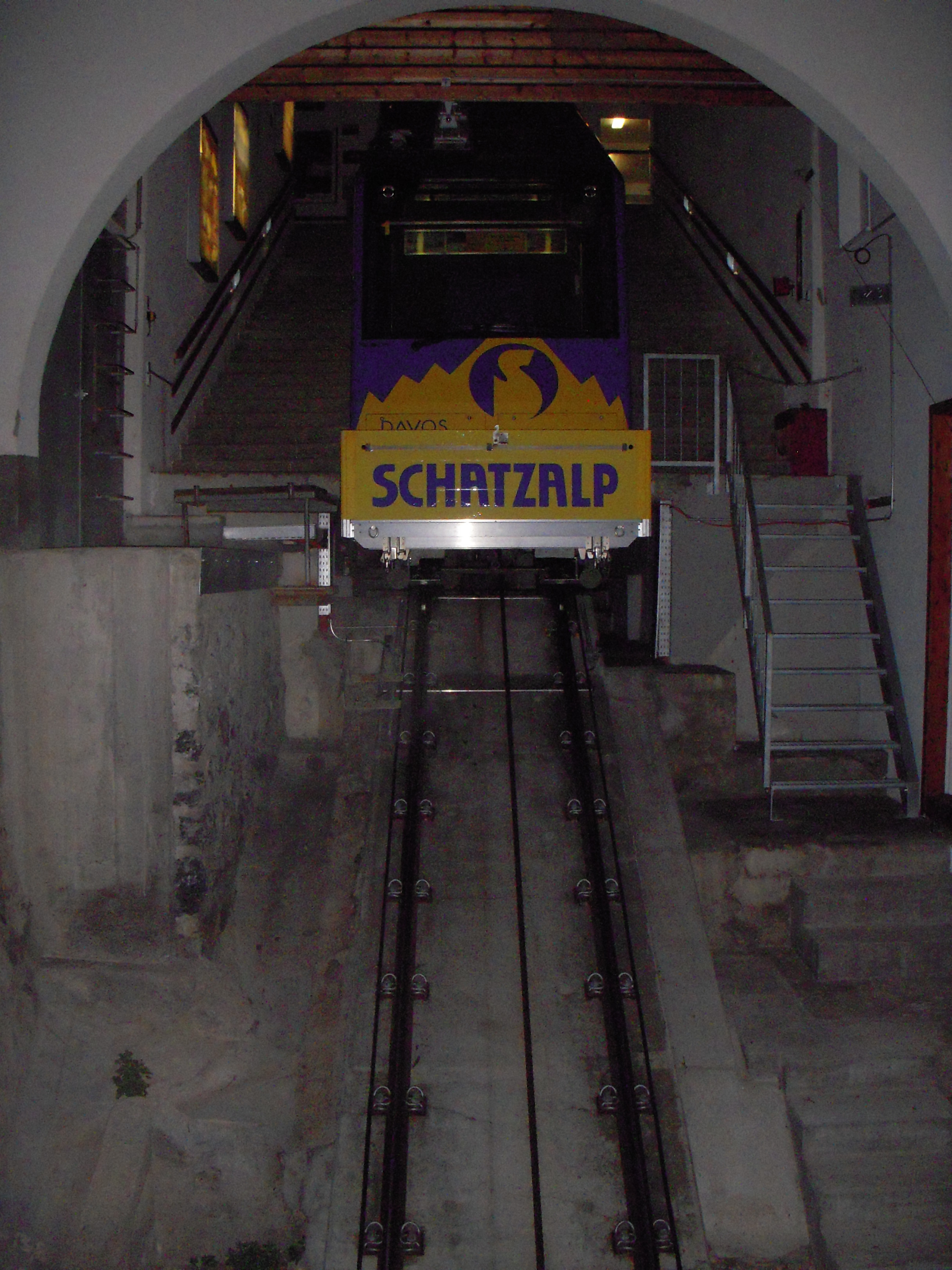 The upper station on the funicular Schatzalpbahn in Davos Platz. August 15, 2012.